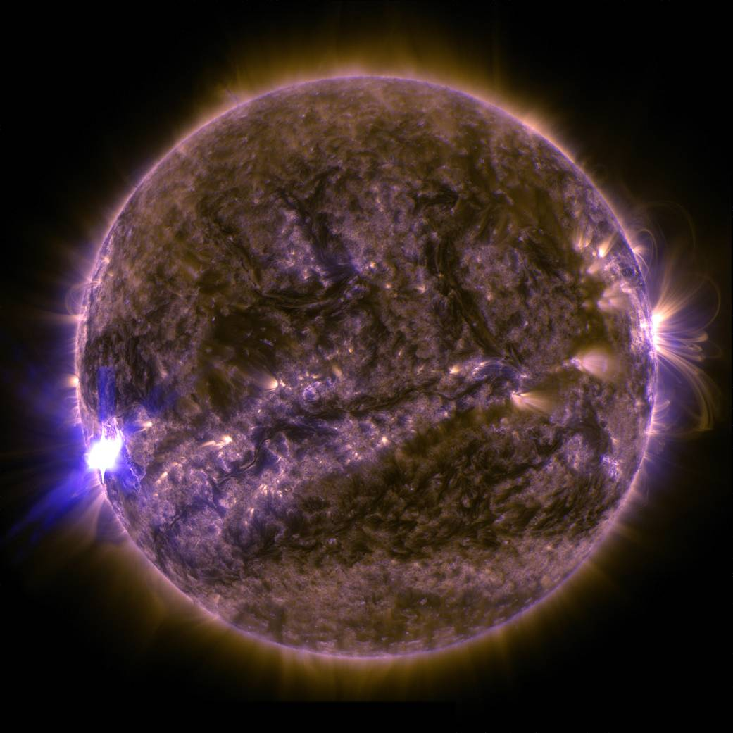 Image of a mid-level solar flare on March 7, 2015, seen as a bright flash of light on the left side of the sun. This image is a blend of two wavelengths of light -- 171 and 131 Angstroms – typically colorized in gold and teal, respectively. NASA SDO